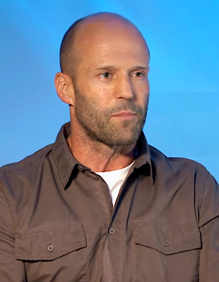 Stars of new MEGA-SHARK movie, The Meg, Jason Statham, Ruby Rose, Li Bingbing and Rainn Wilson reveal the moments that made them LOL behind the scenes, the hilarious bits you WON’T see in cinemas, Ruby Rose’s superhero plans and Jason Statham gives us the details on his upcoming Fast & Furious spinoff movie with The Rock!